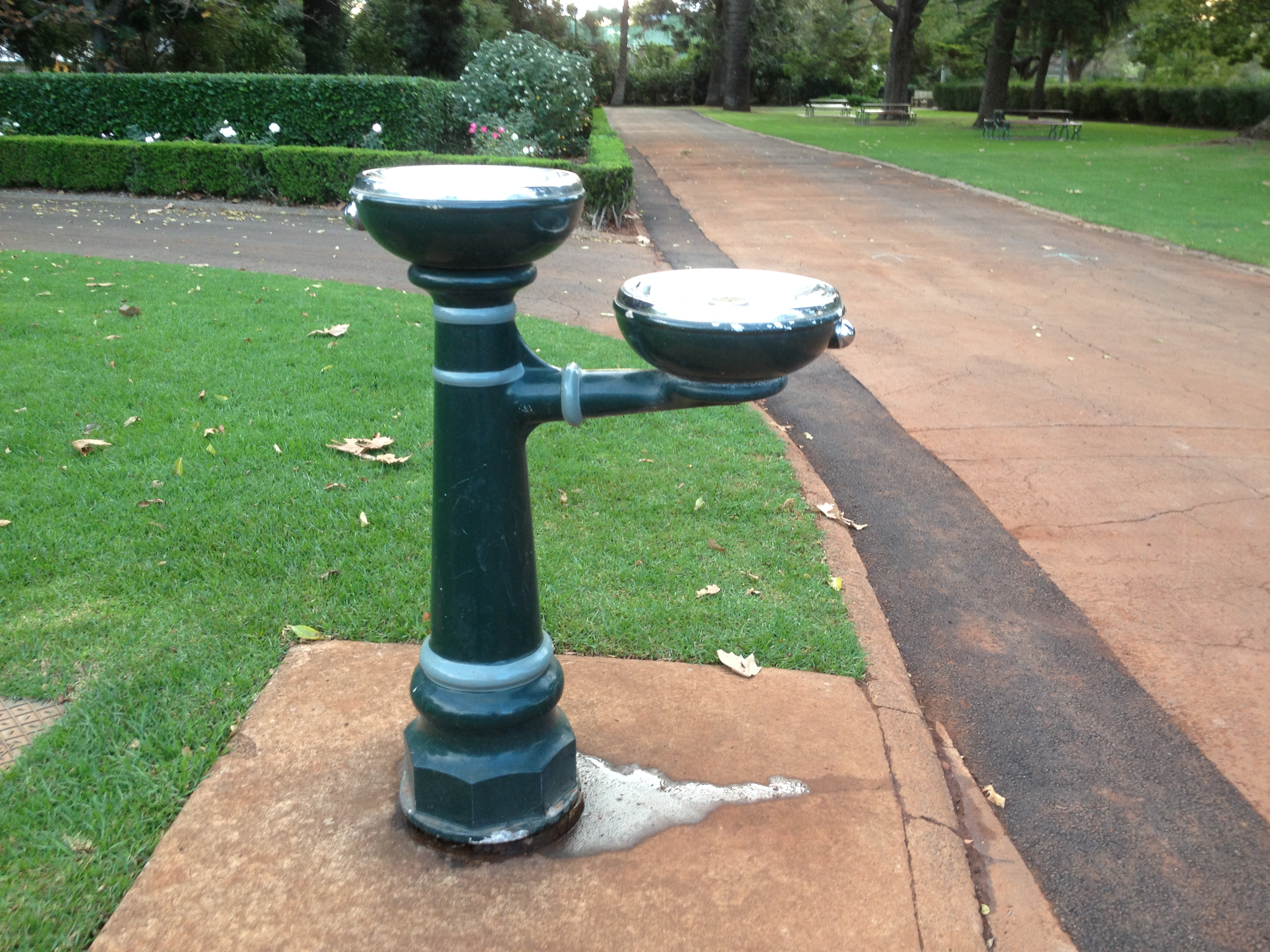 Queens Park Toowoomba, Queensland, Australia